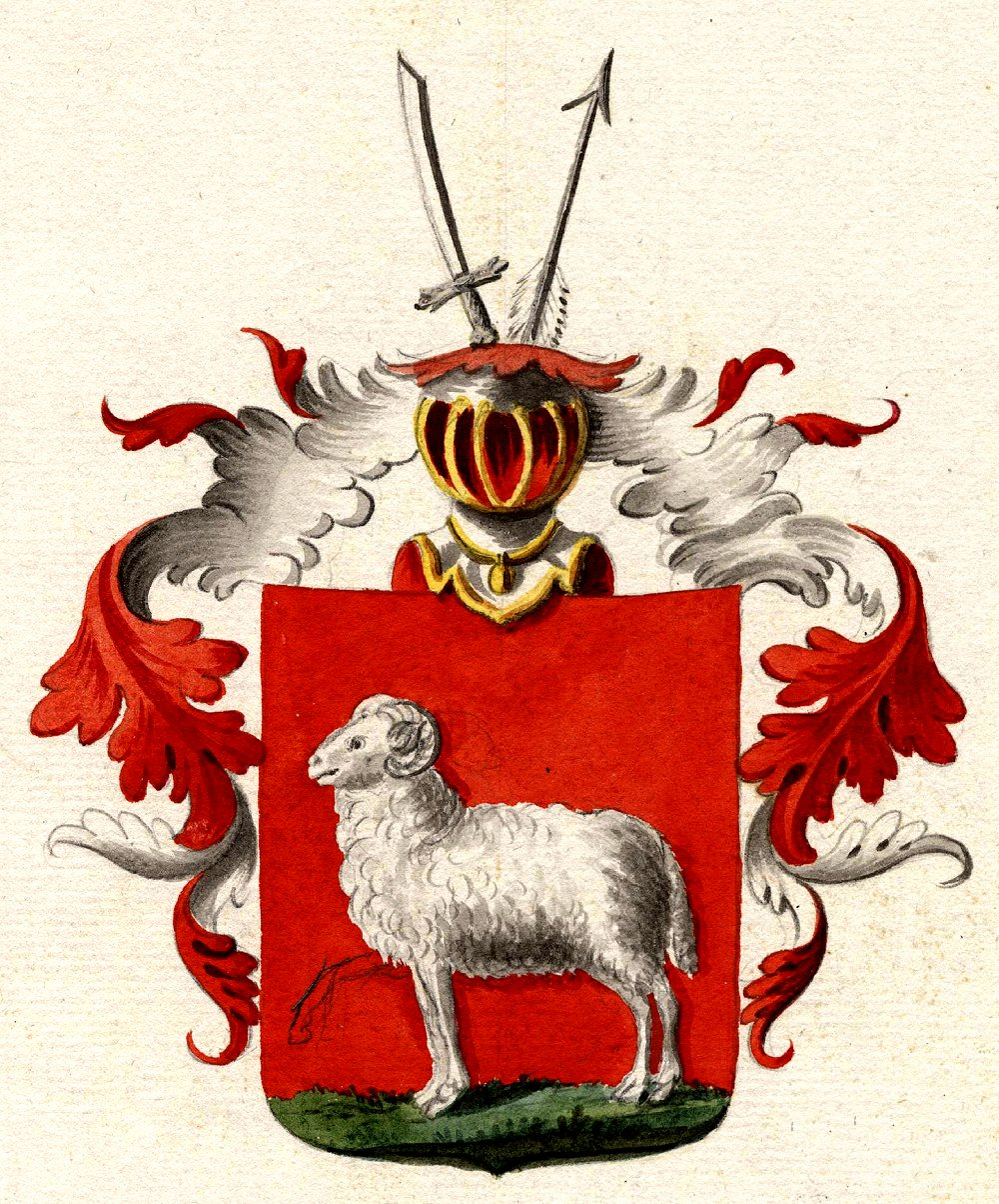 blason Baranov